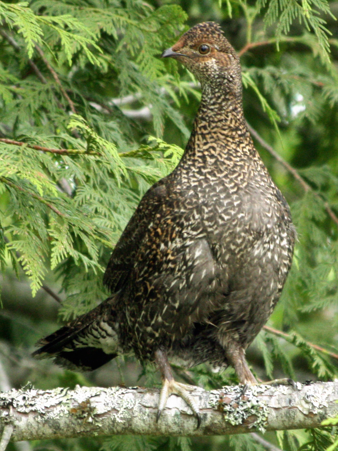 Sooty Grouse Female